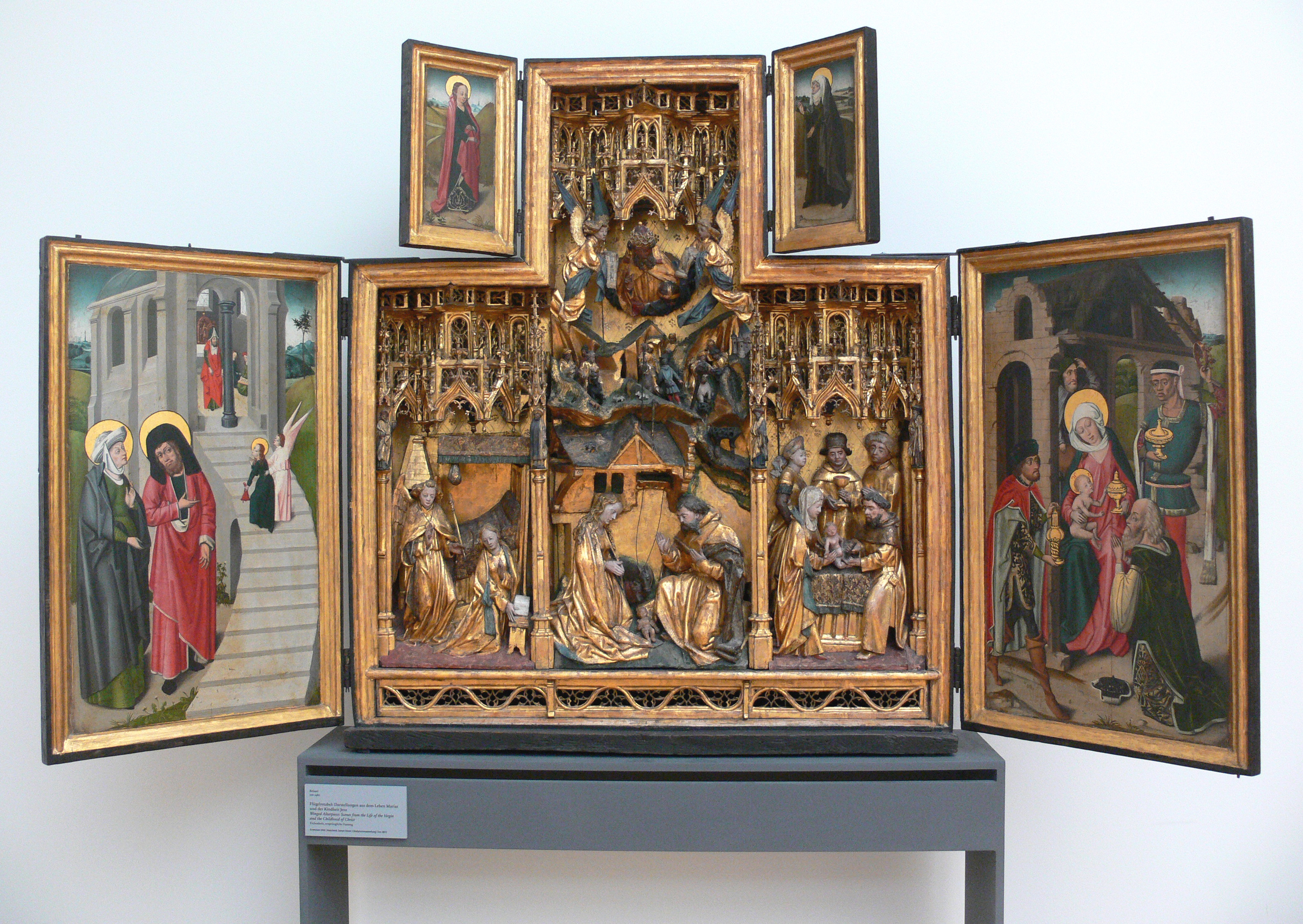 Winged Altarpiece with Scenes from the Life of Mary and the Childhood of Jesus Christ, Brabant, c. 1480 (from Mengen, North Brabant)